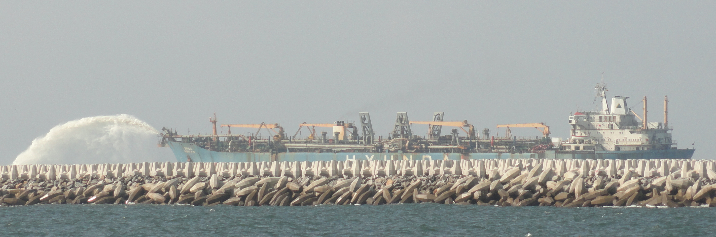 Reclamation work at the Port of Colombo, Sri Lanka.